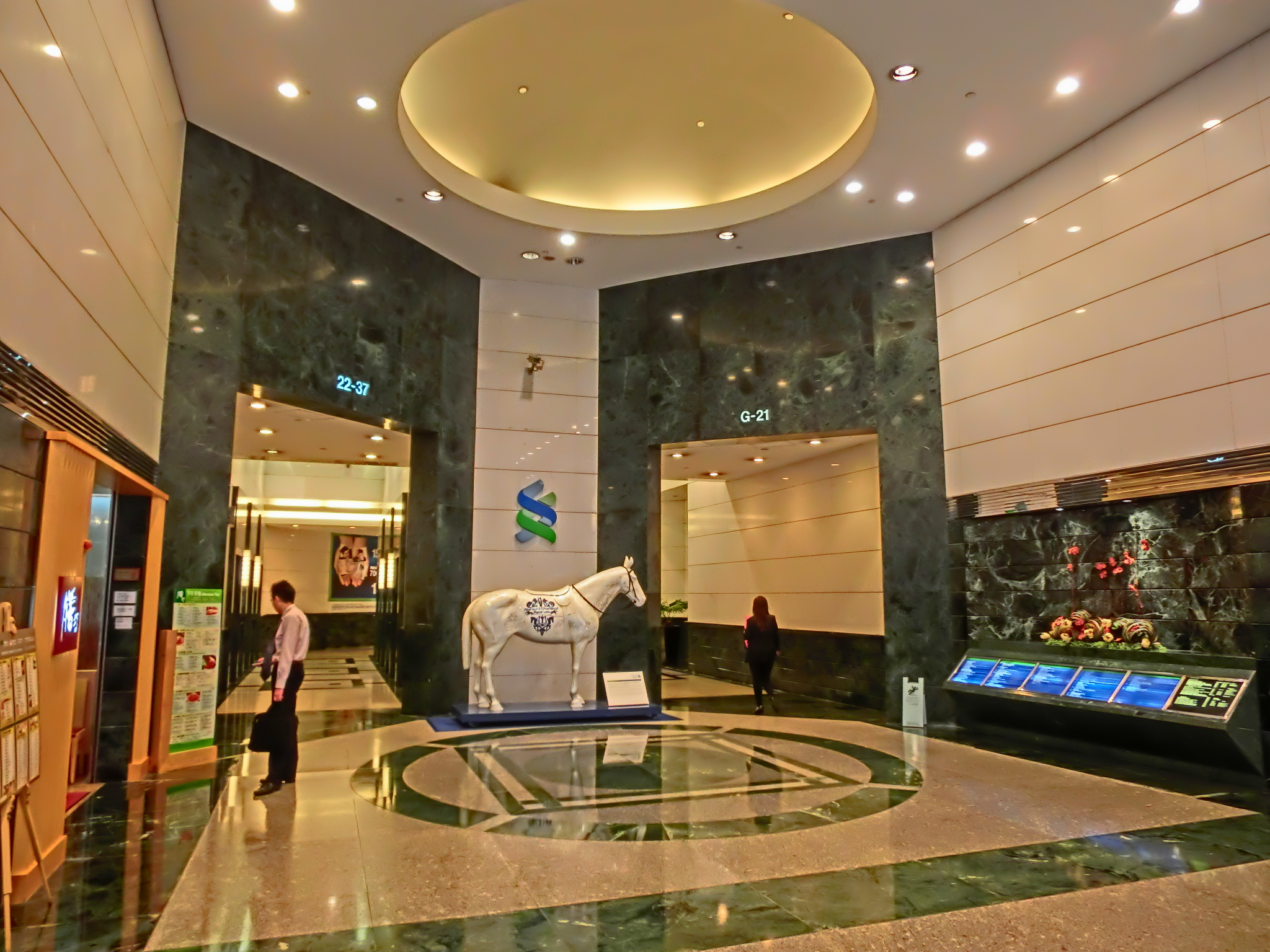 觀塘創紀之城一期, Millennium City phase 1, No.388 Kwun Tong Road, Hong Kong